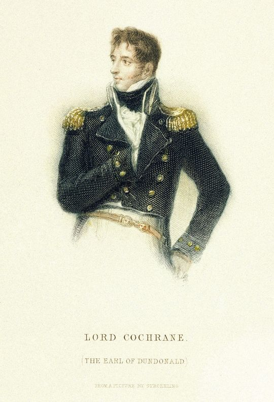 Portrait of Thomas Cochrane, 10th Earl of Dundonald (1775-1860)